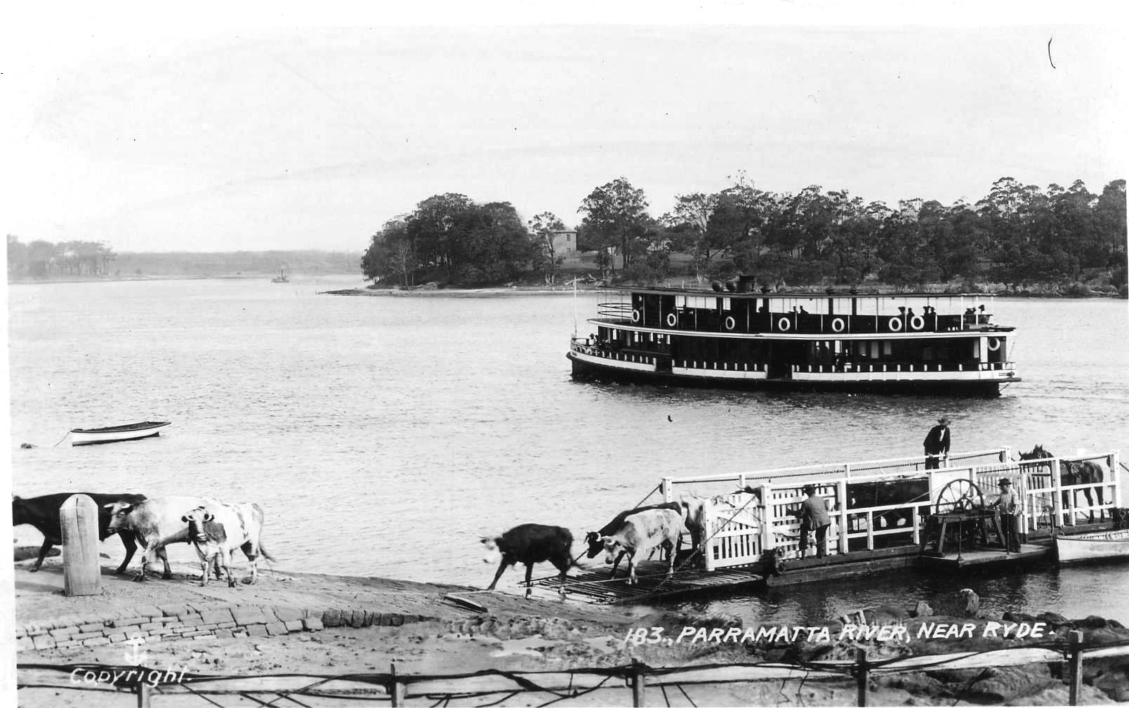 Mortlake Punt. Postcard image of the Parramatta River from the early 1900s showing the ferry S.S. Aleathea and Mortlake Punt.